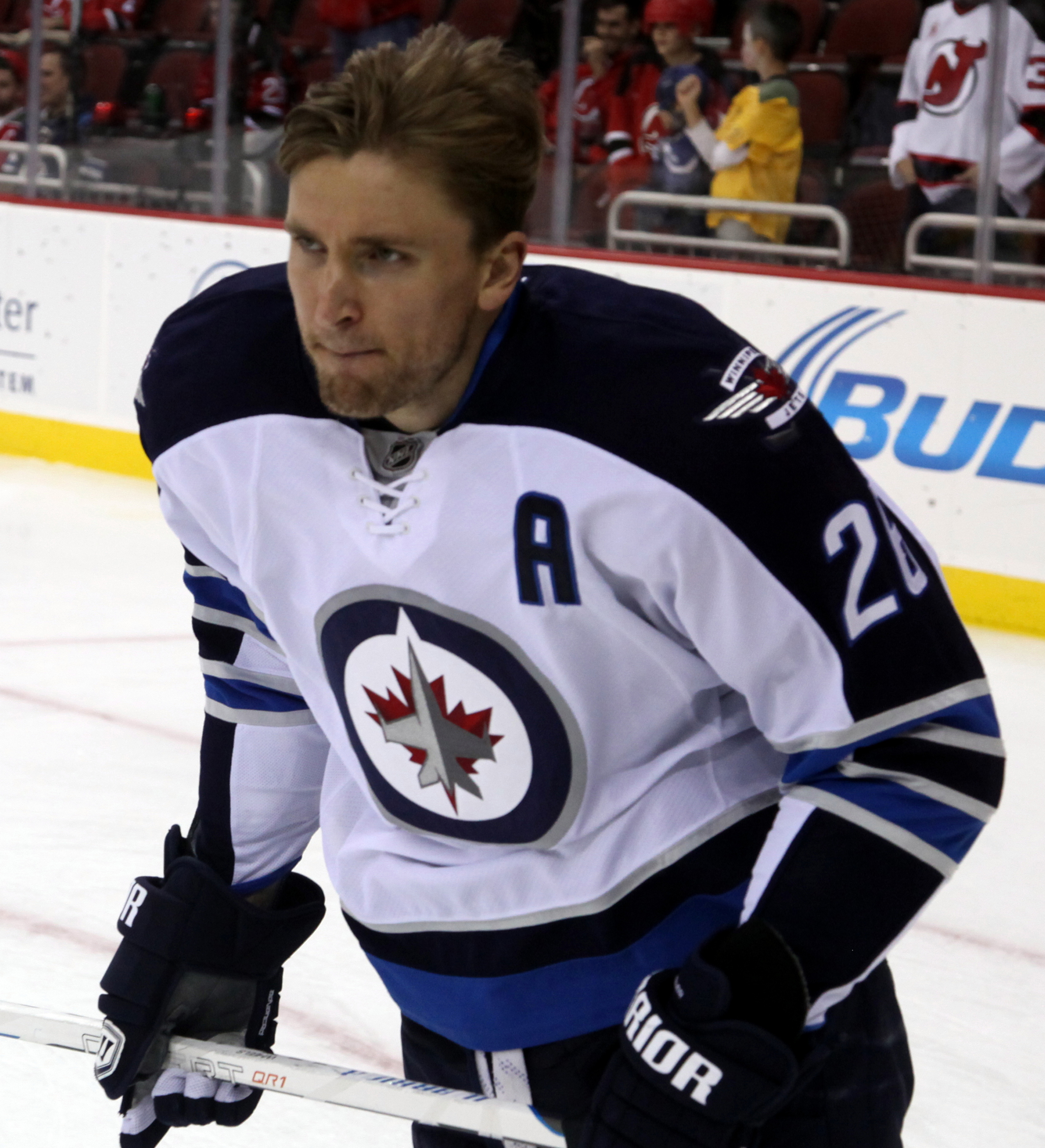 Wheeler in October 2014